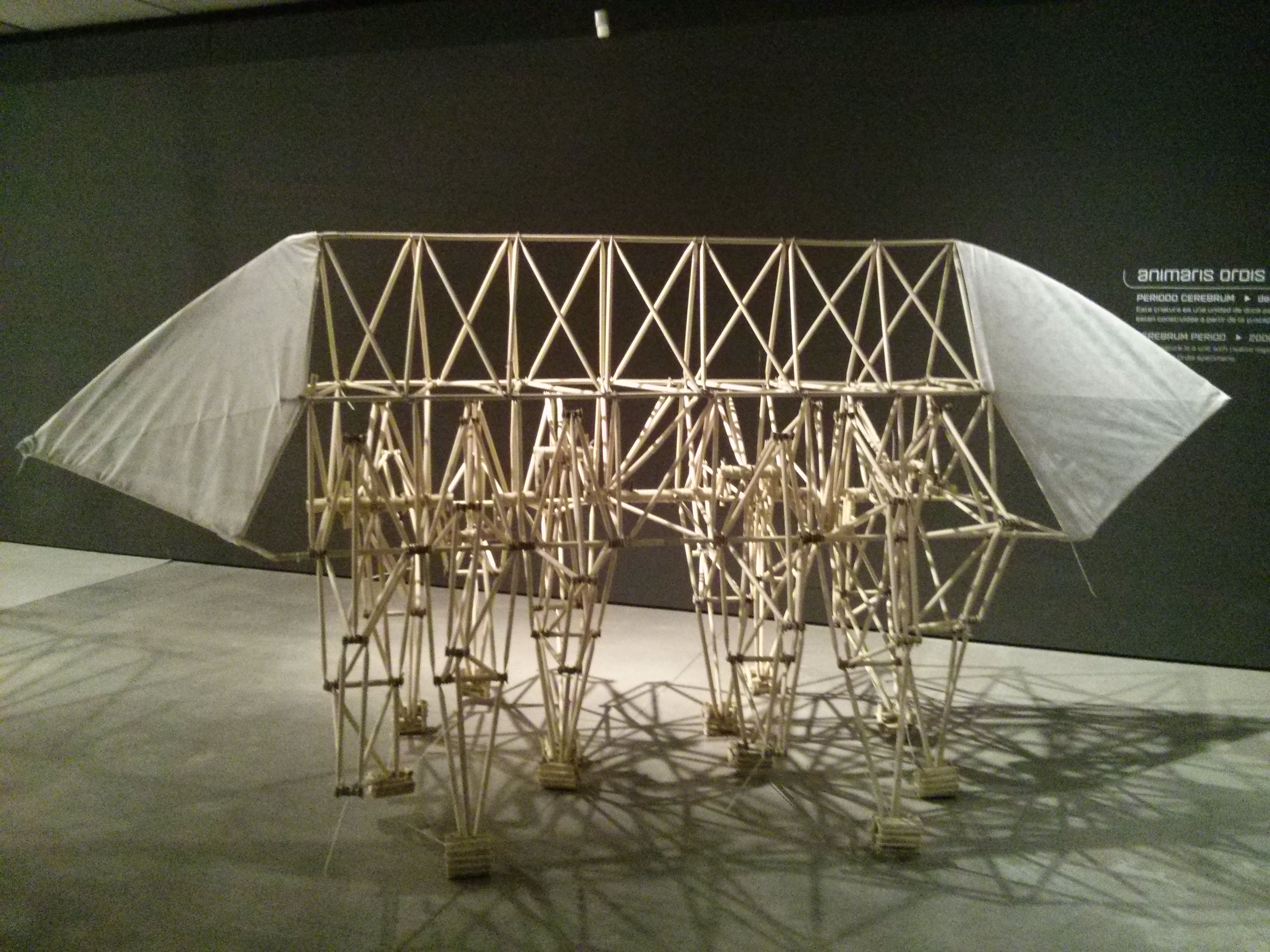 The photo was taken in a exhibition in Madrid at 2015.